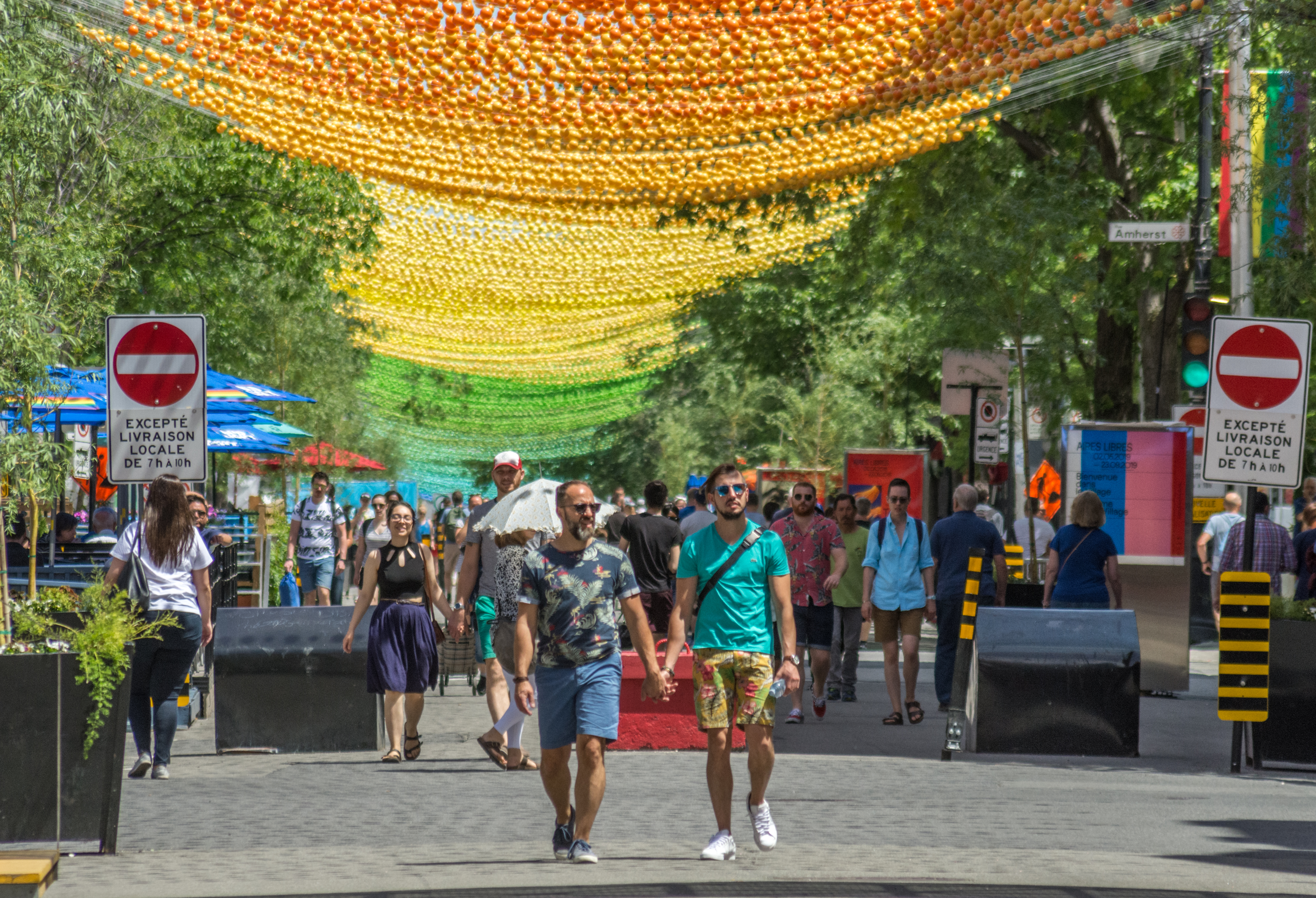 Saint Catherine StreetLocation: Montreal, CanadaEvent type: NADate or year: 2019-06-24